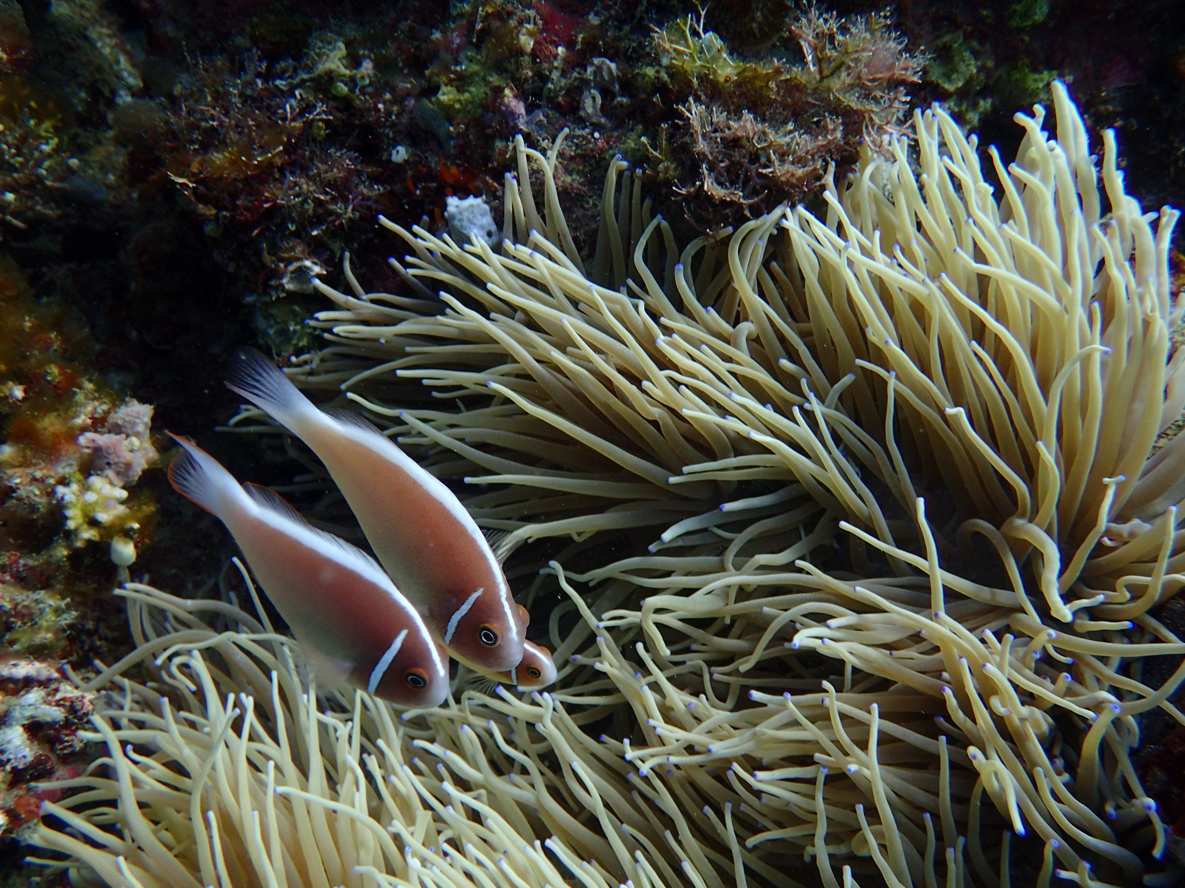 Fish in anenomes in Puerto Galera